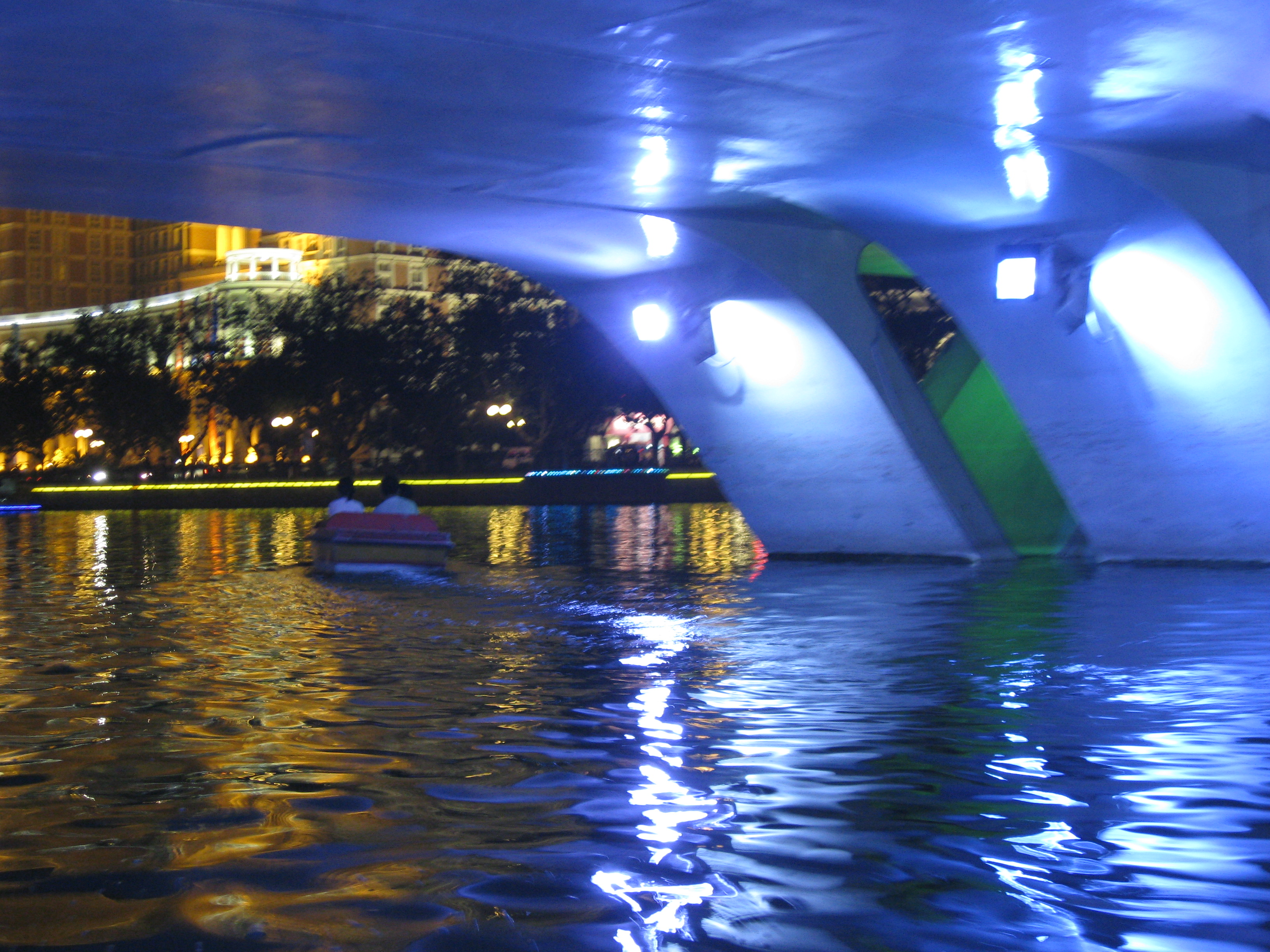 Hao River in The Evening （濠河夜景）